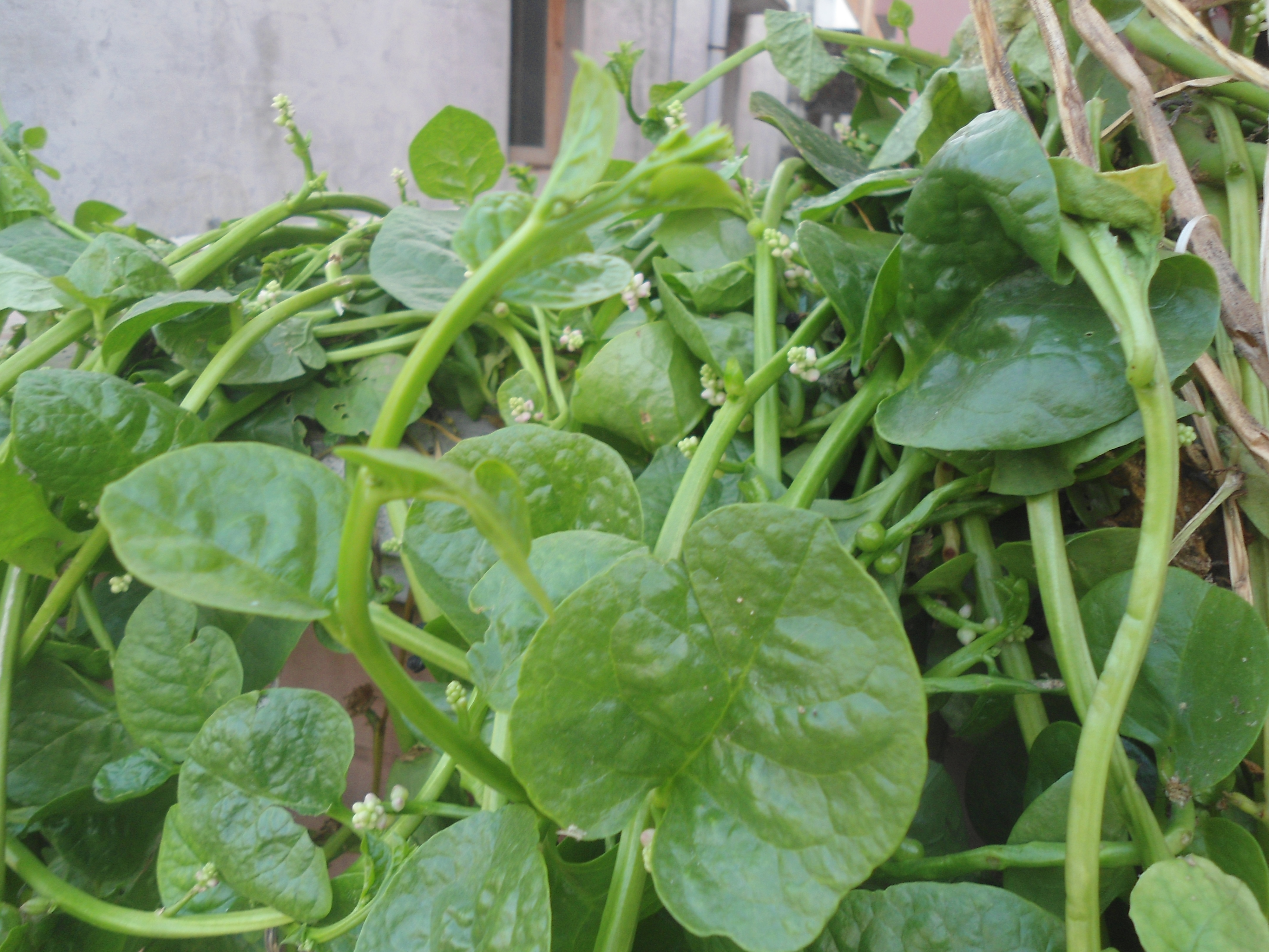 (Basella alba) Malabar spinach at Bandlaguda in Rangareddy district, Andhra Pradesh